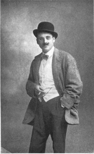 "The Author as a Hungarian Mechanic", taken from the book shown. Published in England in 1919.